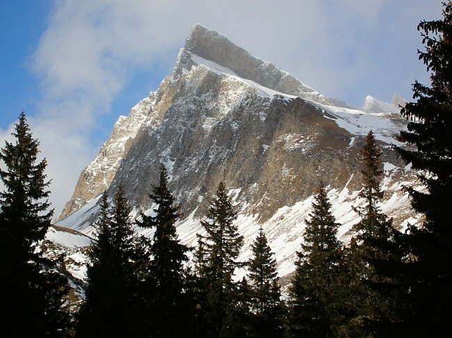 Piz Uccello, seen from San Bernardino. Trees are Picea abies